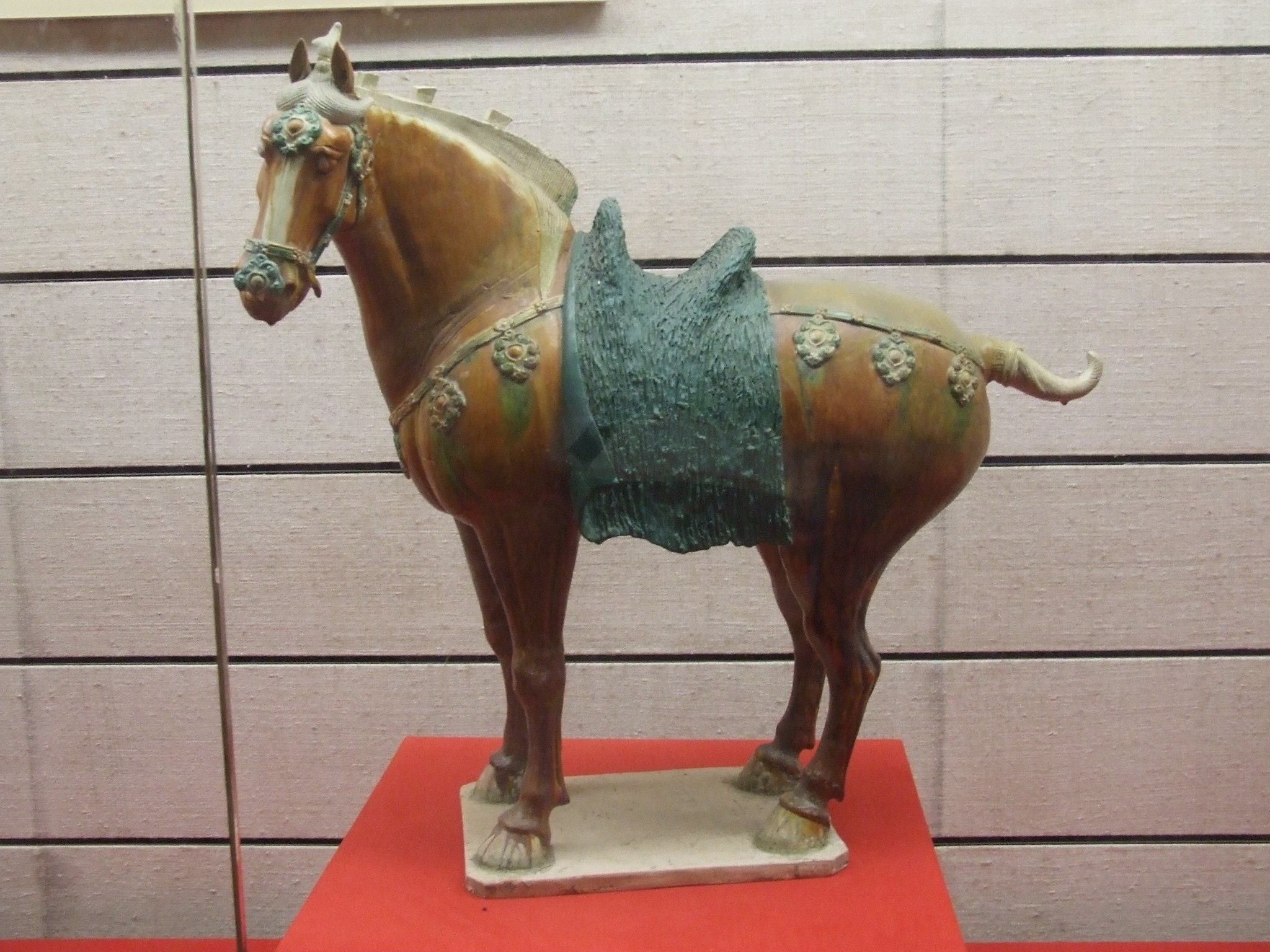 The Shaanxi History Museum in Xi'an